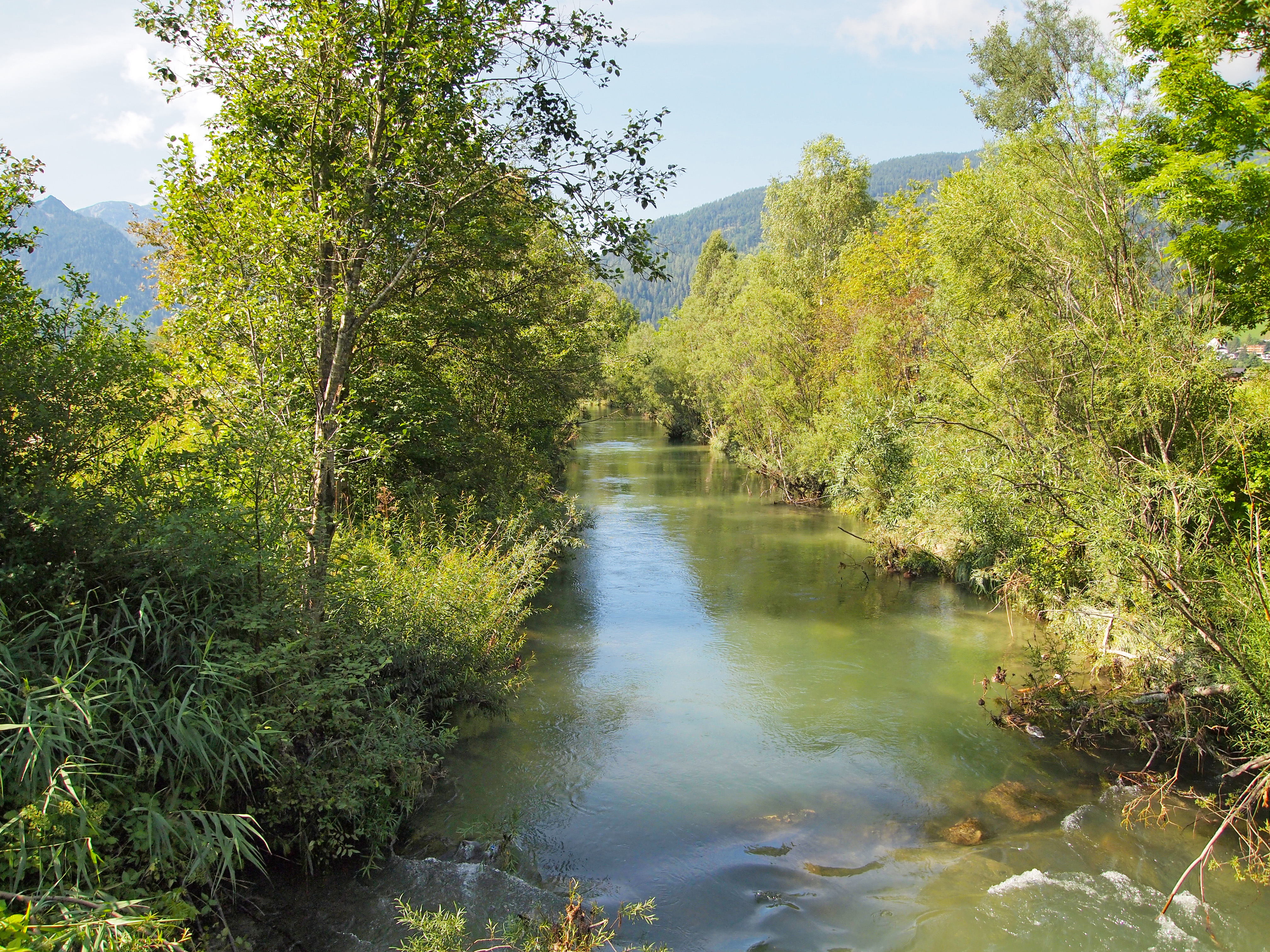 Stream between the towns Lermoos and Ehrwald in Tyrol, Austria. This photograph was taken with a Olympus E-PL1.